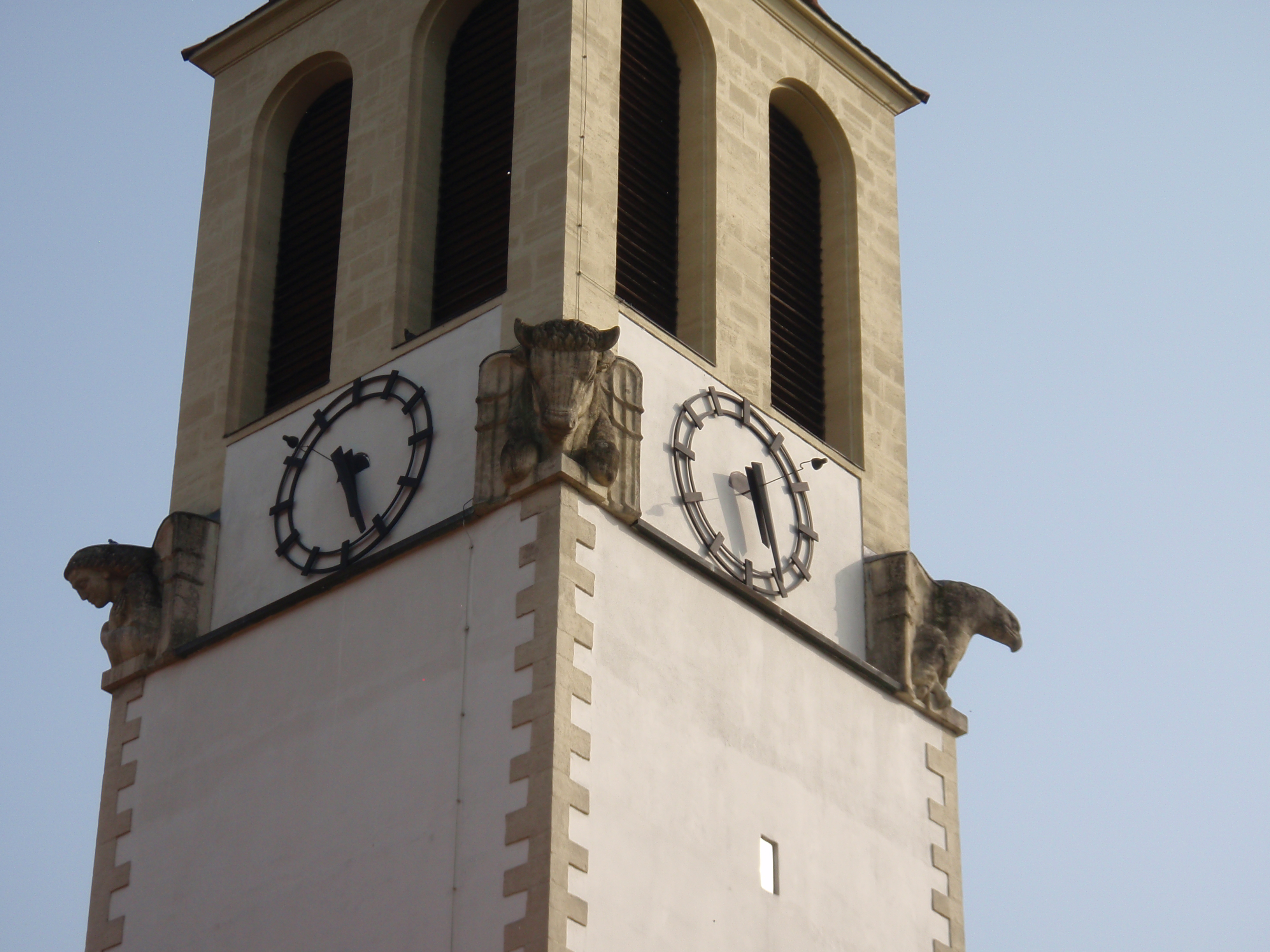 Steeple of the of the Roman Catholic Heart of Jesus Peace Church in Eichgraben named "Duomo of Vienna Woods" with the sculptures from sandstone of the Four Evangelists of Adolf Treberer-Treberspurg. To the left the Angel or Man of Matthew, to the middle the Ox or Calf of Luke an to the right the Eagle of John; the Lion of Mark is on this photo unvisible.